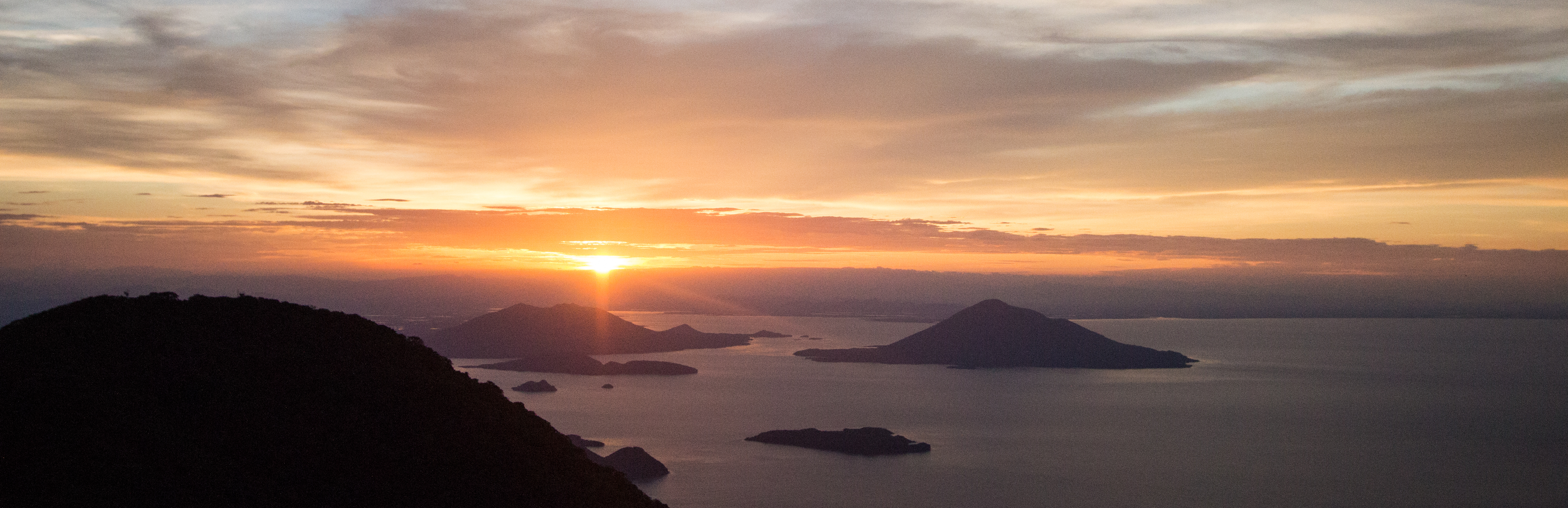 Panorámica de Golfo de Fonseca